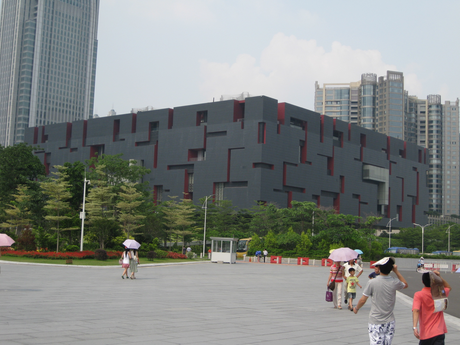 New Guangdong Provincial Museum overview